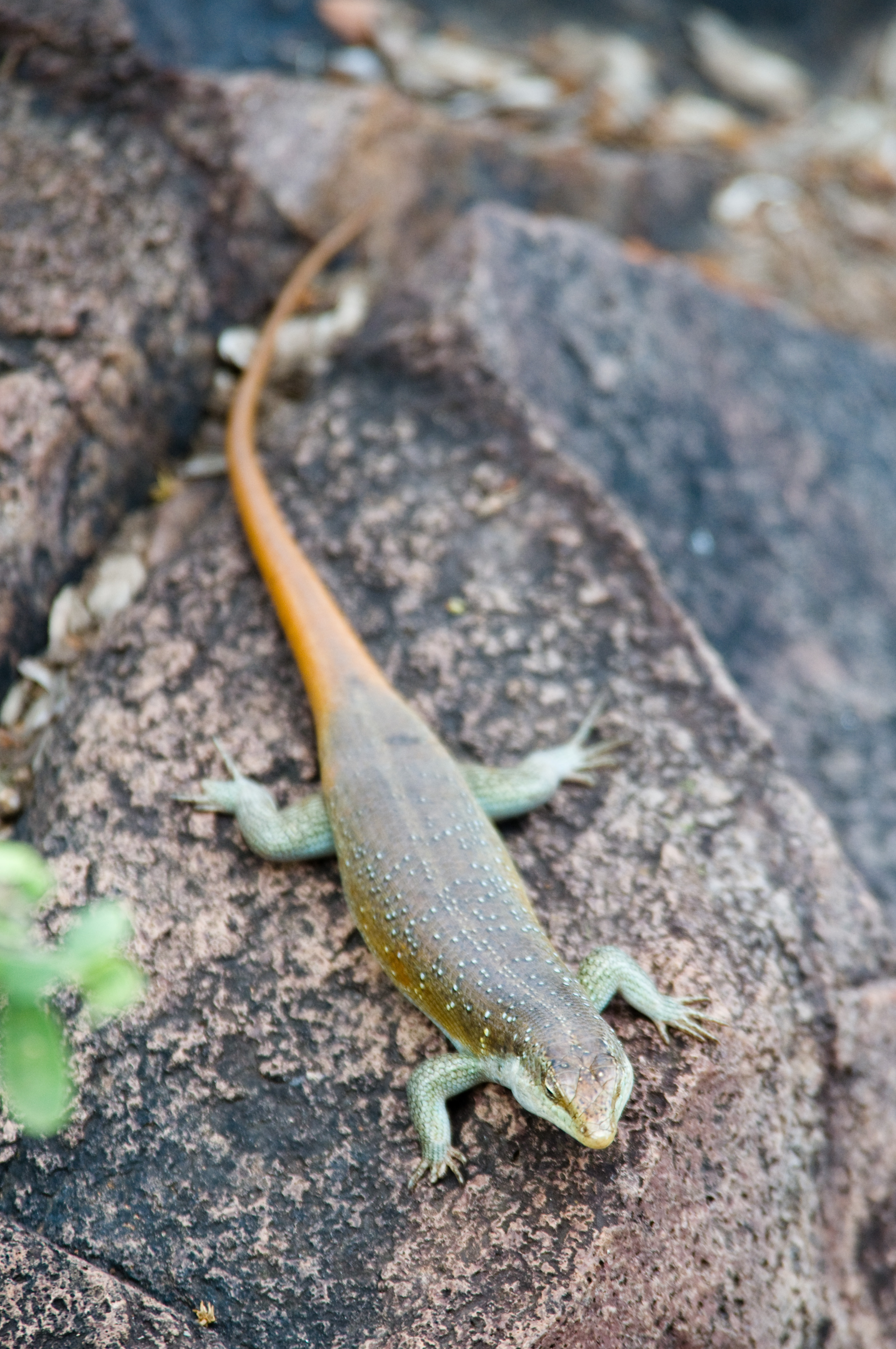 Adult male of the Rainbow skink (Trachylepis margaritifera) at Nwanedzi River, Kruger National Park (South Africa)